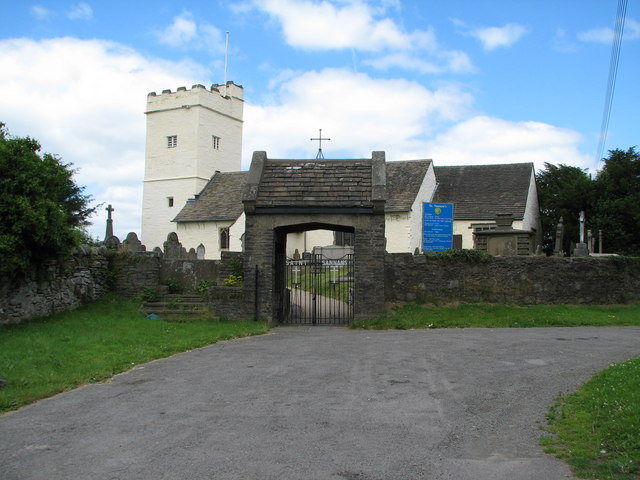 St Sannan's, the parish church of Bedwellty. The 13th century St Sannan's church in Bedwellty, near Blackwood looking North.